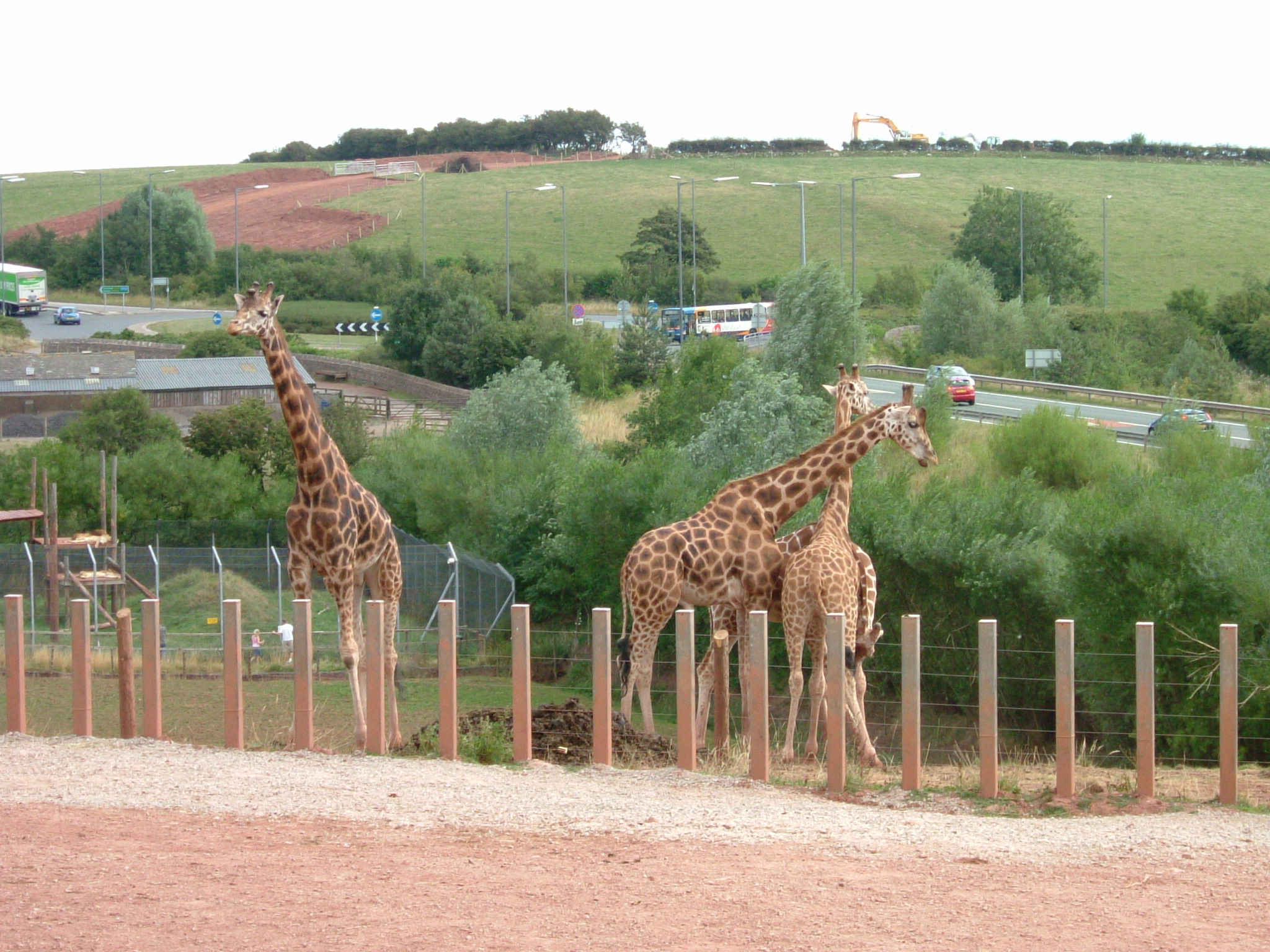 Giraffes at South Lakes Wild Animal Park near Barrow-in-Furness